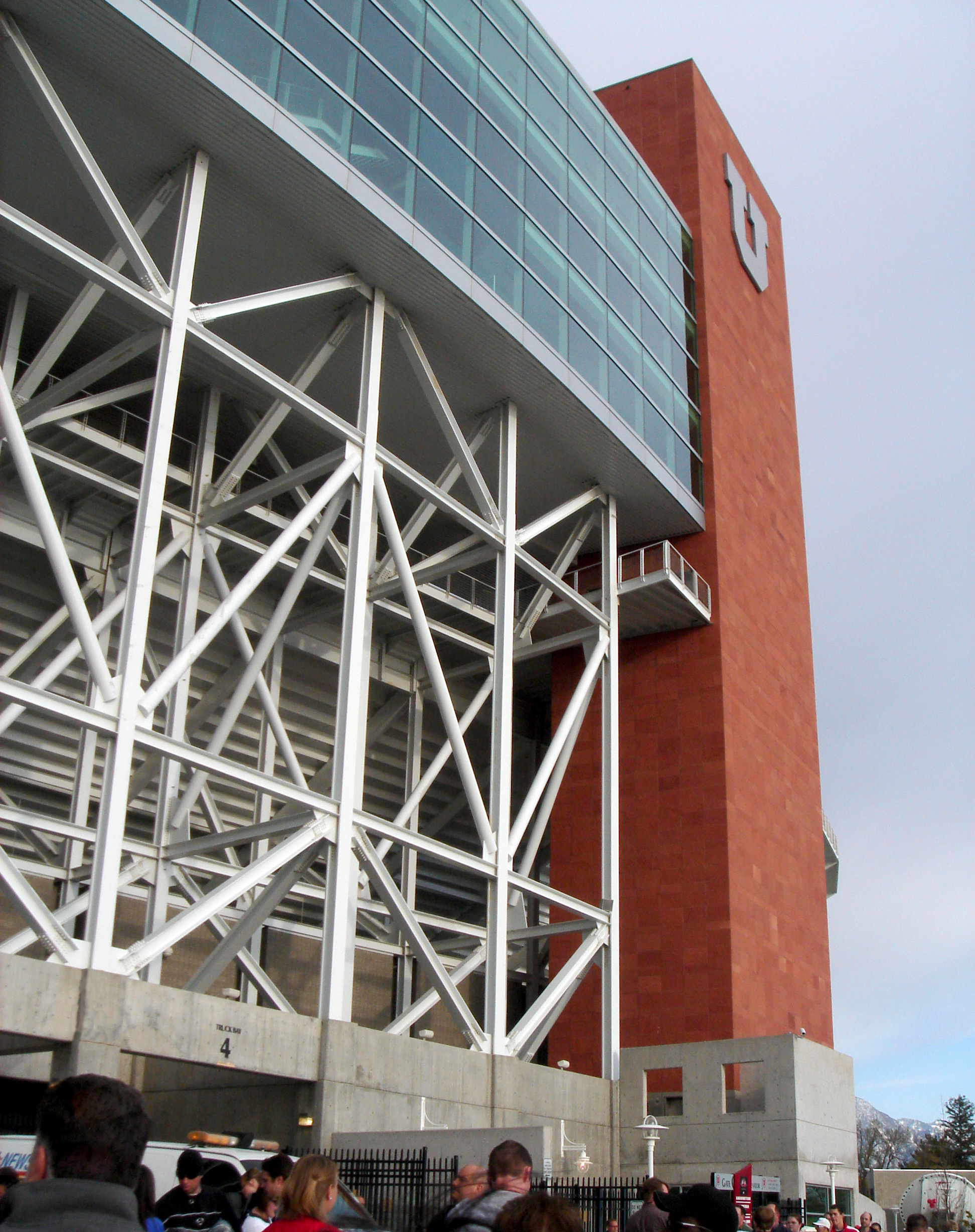 Exterior of Rice-Eccles Stadium